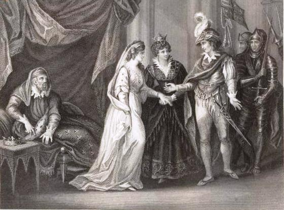 Henry V King of England Receives the Princess of France in Marriage